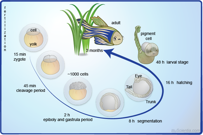 Life cycle of a zebra fish from fertilization to an adult fish